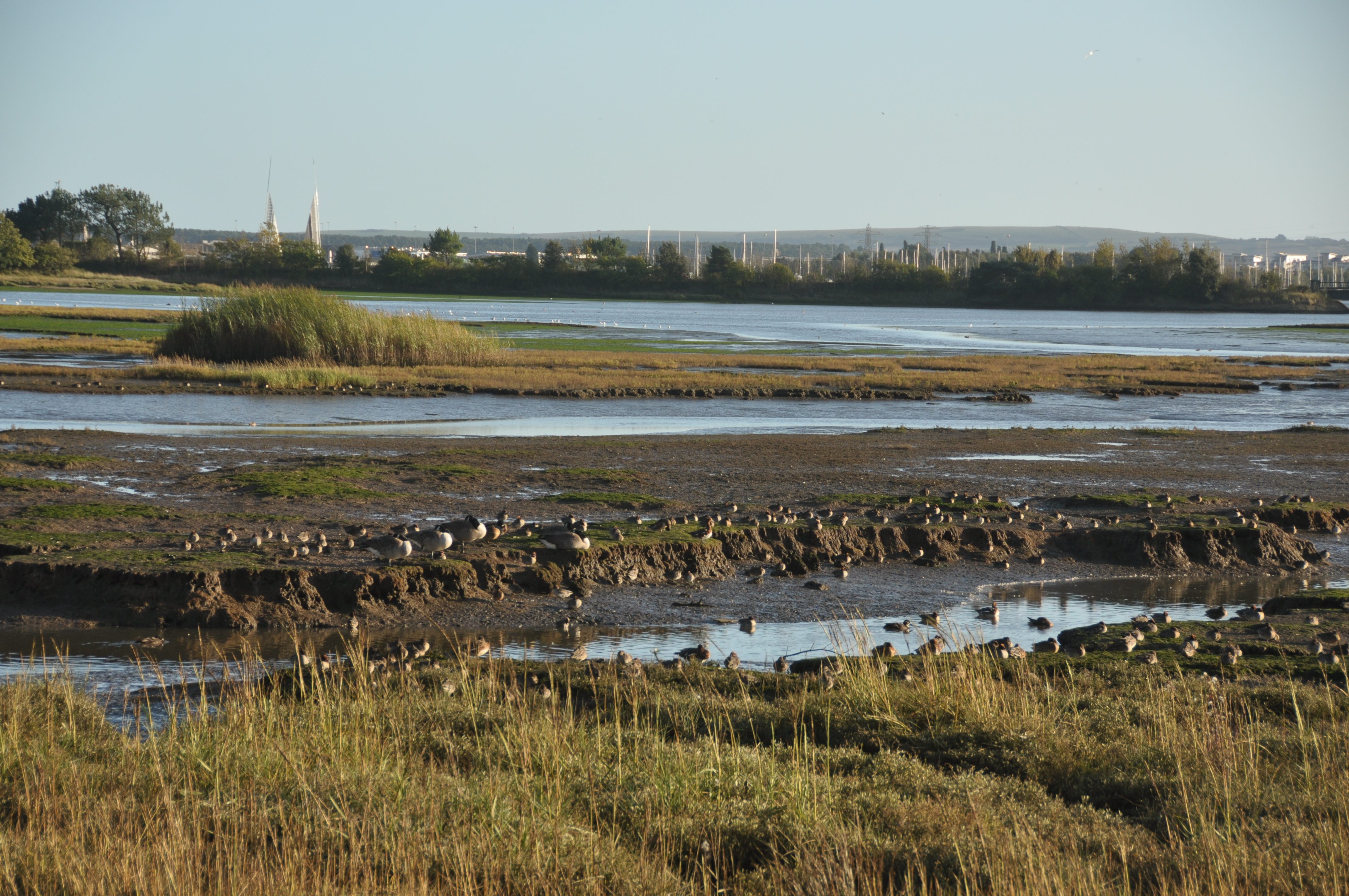 Holes Bay near Upton Country Park